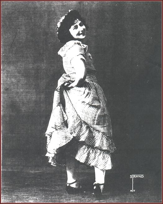 Nellie Casman, actress, songwriter, singer, coupletist